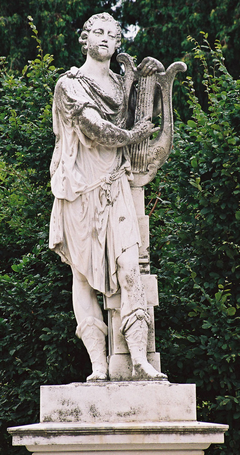 Vienna, Schönbrunn gardens, statue Amphion